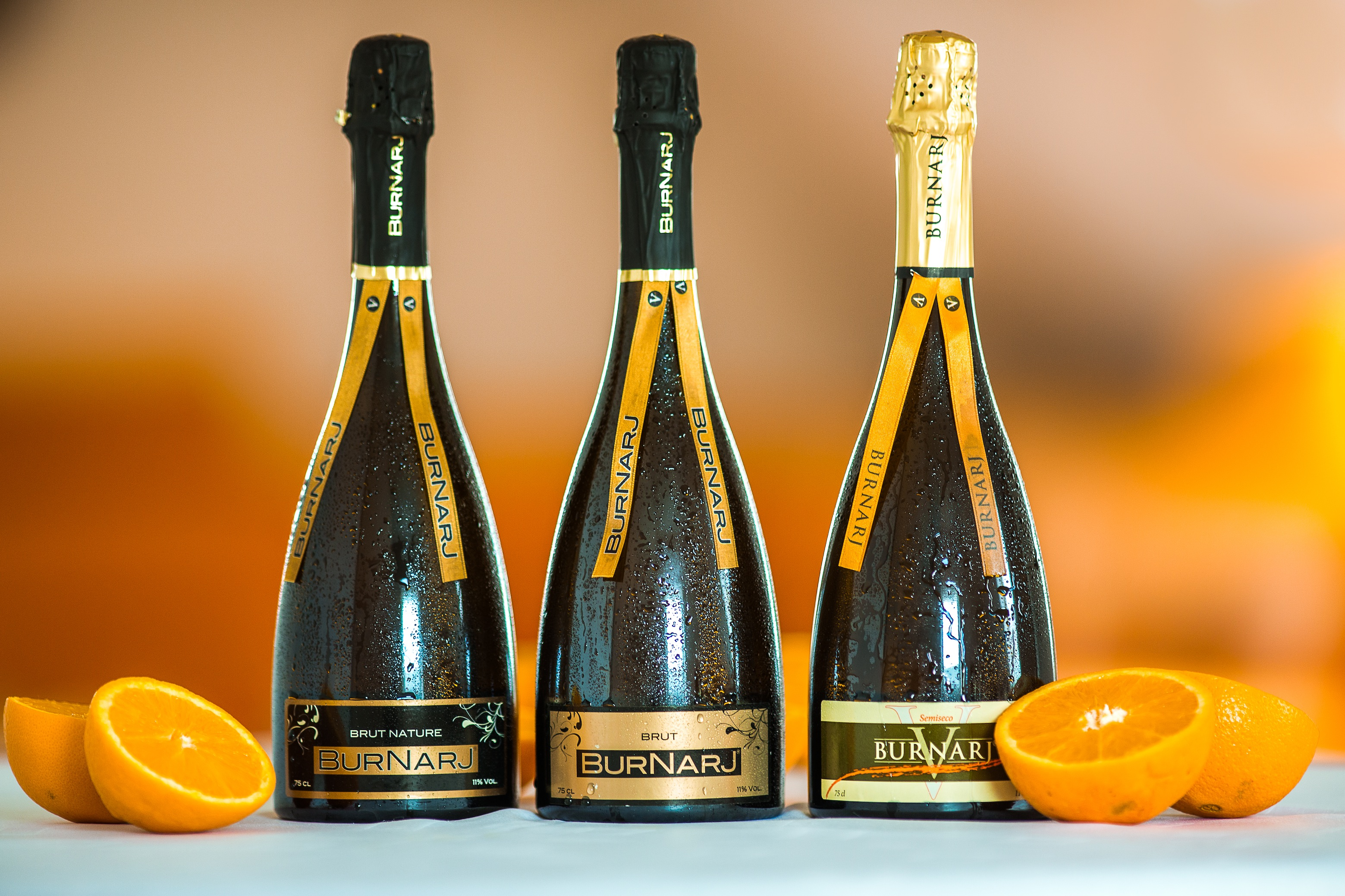 Burnarj - Spanish sparkling wine produced from oranges